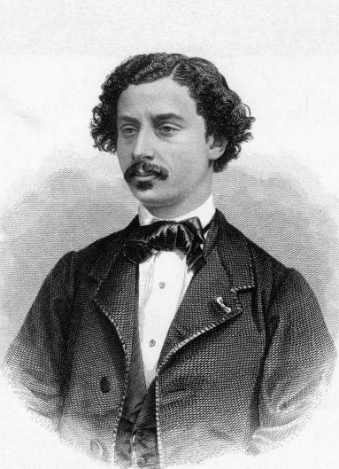 Spanish composer, violinist, and conductor Jesús de Monasterio (1836-1903) by August Weger (1823-1892).